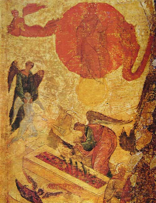 Woman of the Apocalypse (detail of russian icon)